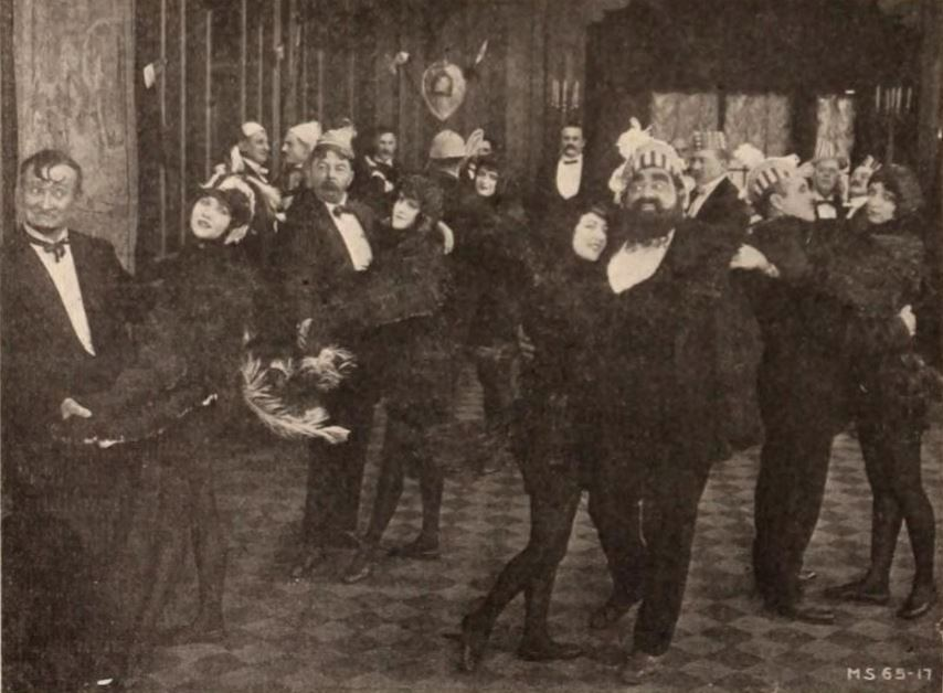 Still from the American comedy short film By Golly! (1920) with Charles Murray, on page 74 of the June 12, 1920 Exhibitors Herald.